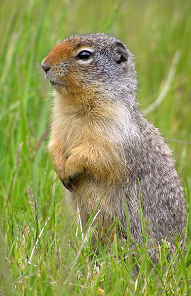 watchful ground squirrel, Banff, Alberta, Canada Coloring suggests this is a Columbian Ground Squirrel (Spermophilus columbianus): reddish underparts and face, grey upperparts. Richardson's is light grey below and brownish above. (Source: Kays and Wilson, 2000, Mammals of North America, plates 21, 22, ISBN 0-691-07012-1; identification by Ucucha 18:55, 15 November 2009 (UTC).) Taken by Martin Pot